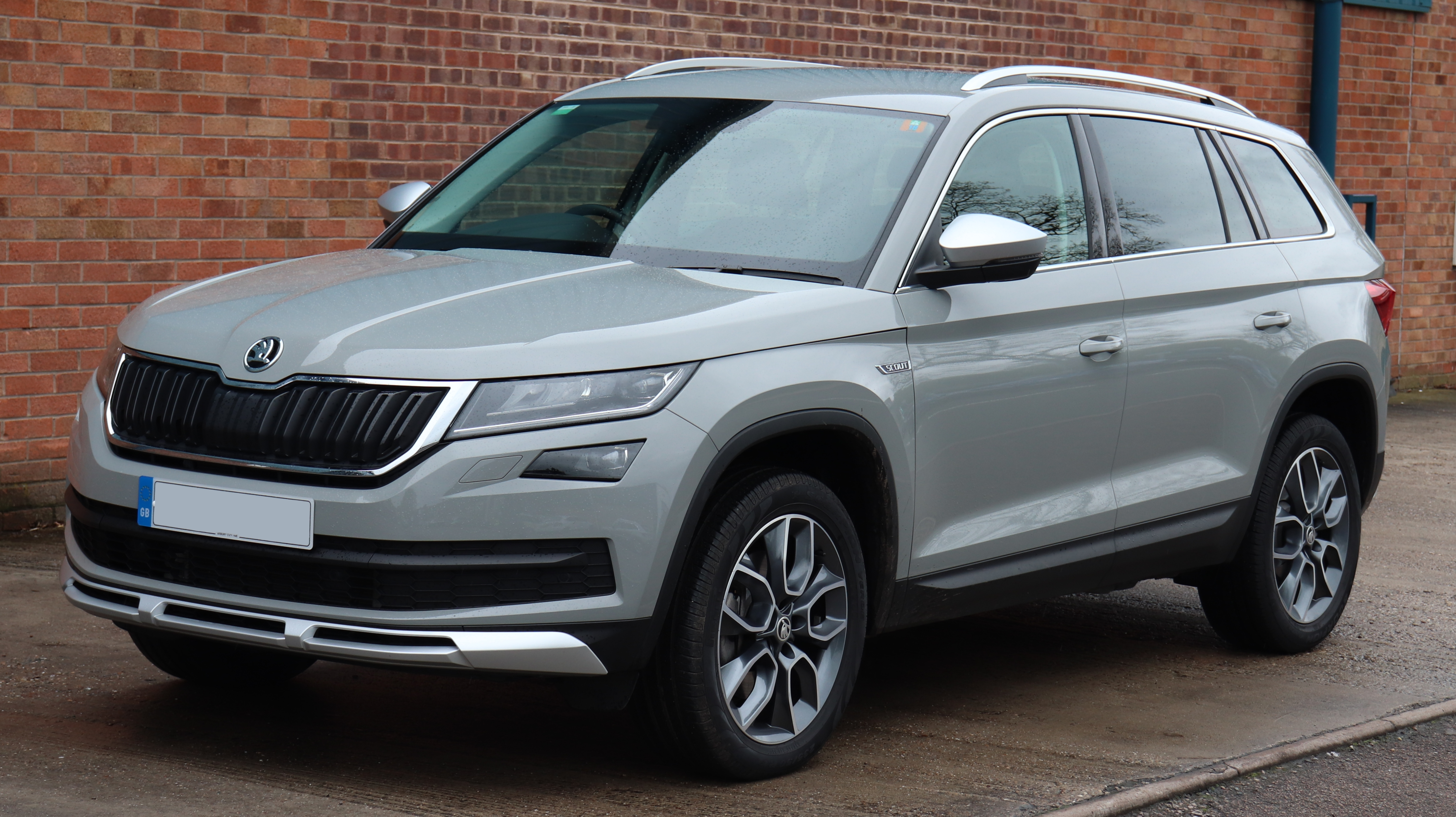 2018 Skoda Kodiaq Scout TDi SCR 4X4 2.0 Front Taken in Sydnam, Leamington Spa